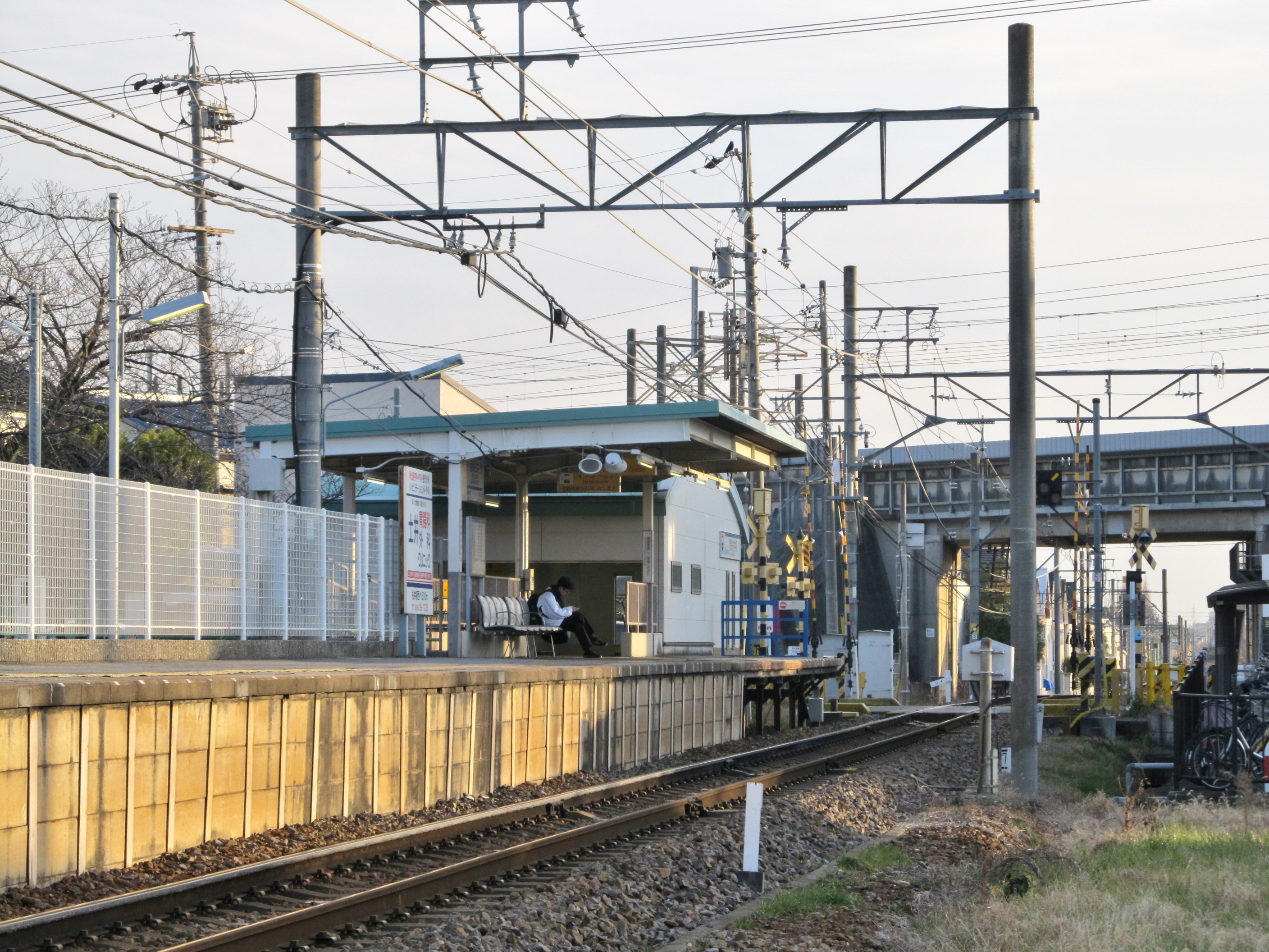 Nagoya Railroad Nishio Line Hekikai Furui Station Platform